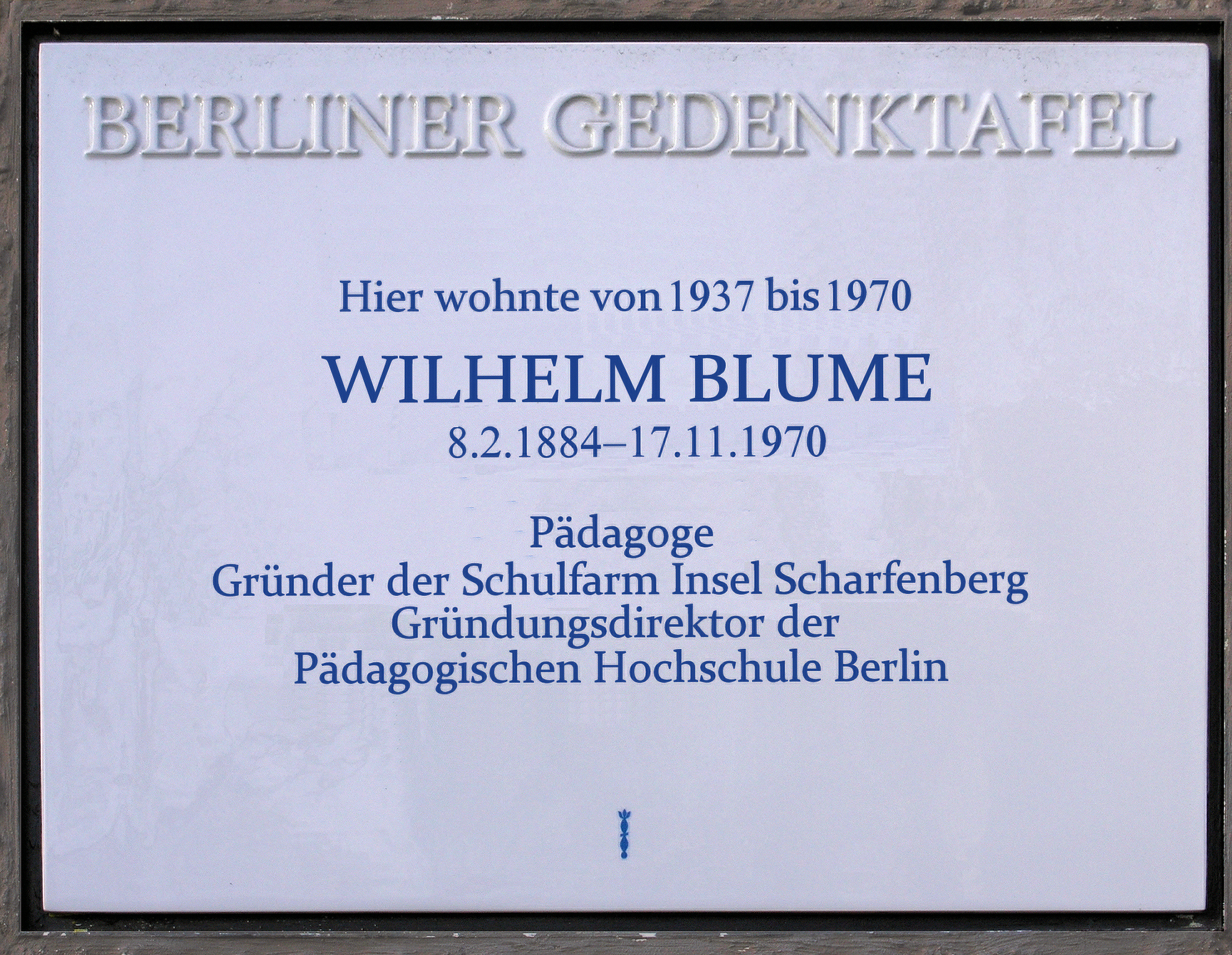 Berlin memorial plaque, Wilhelm Blume, Speerweg 36, Berlin-Frohnau, Germany